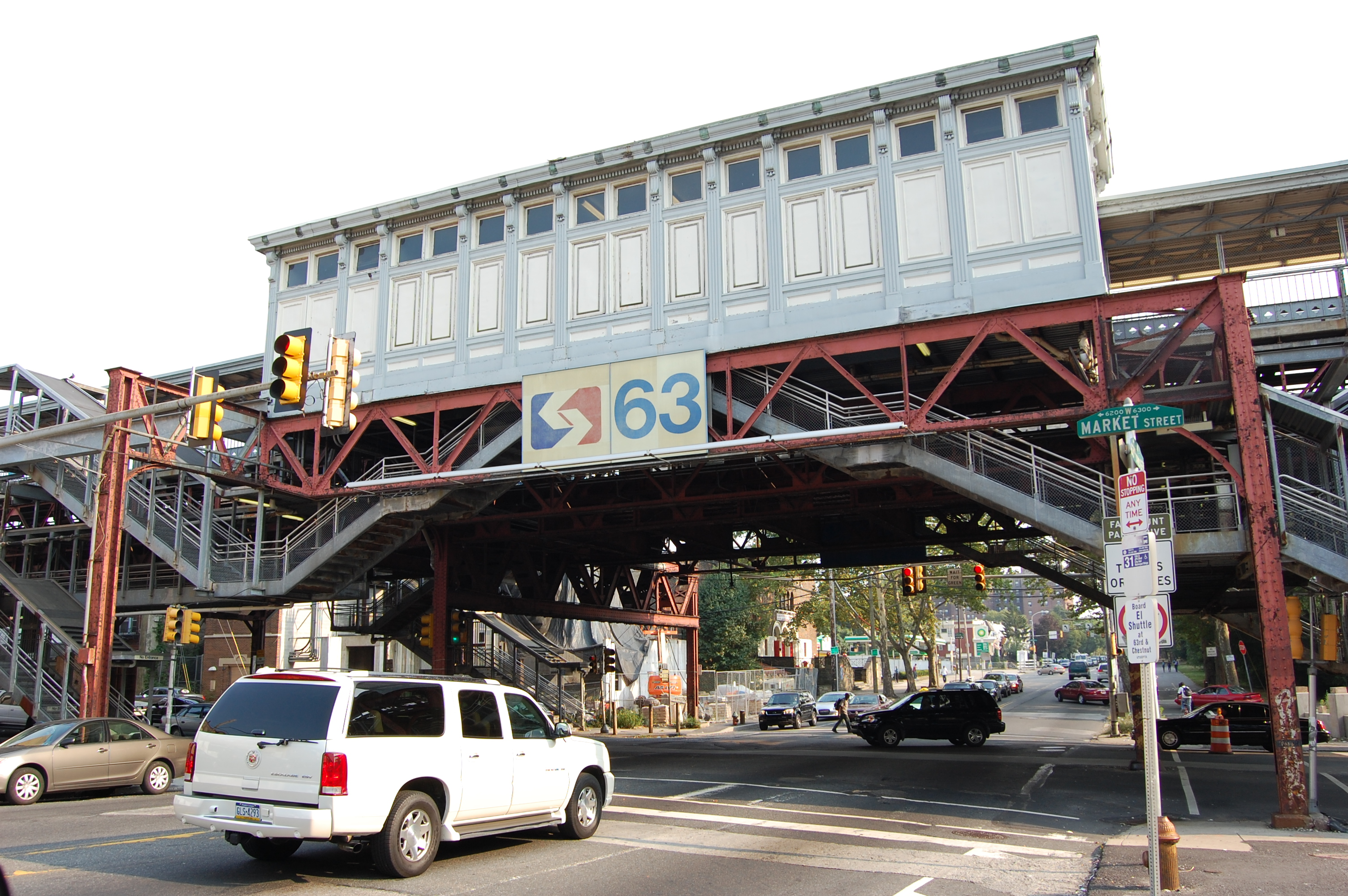 63rd Street Station